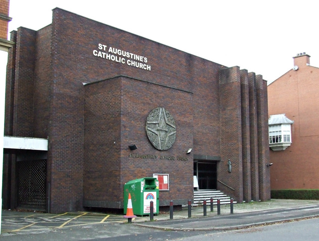 Photograph of St Augustine's, Manchester, England